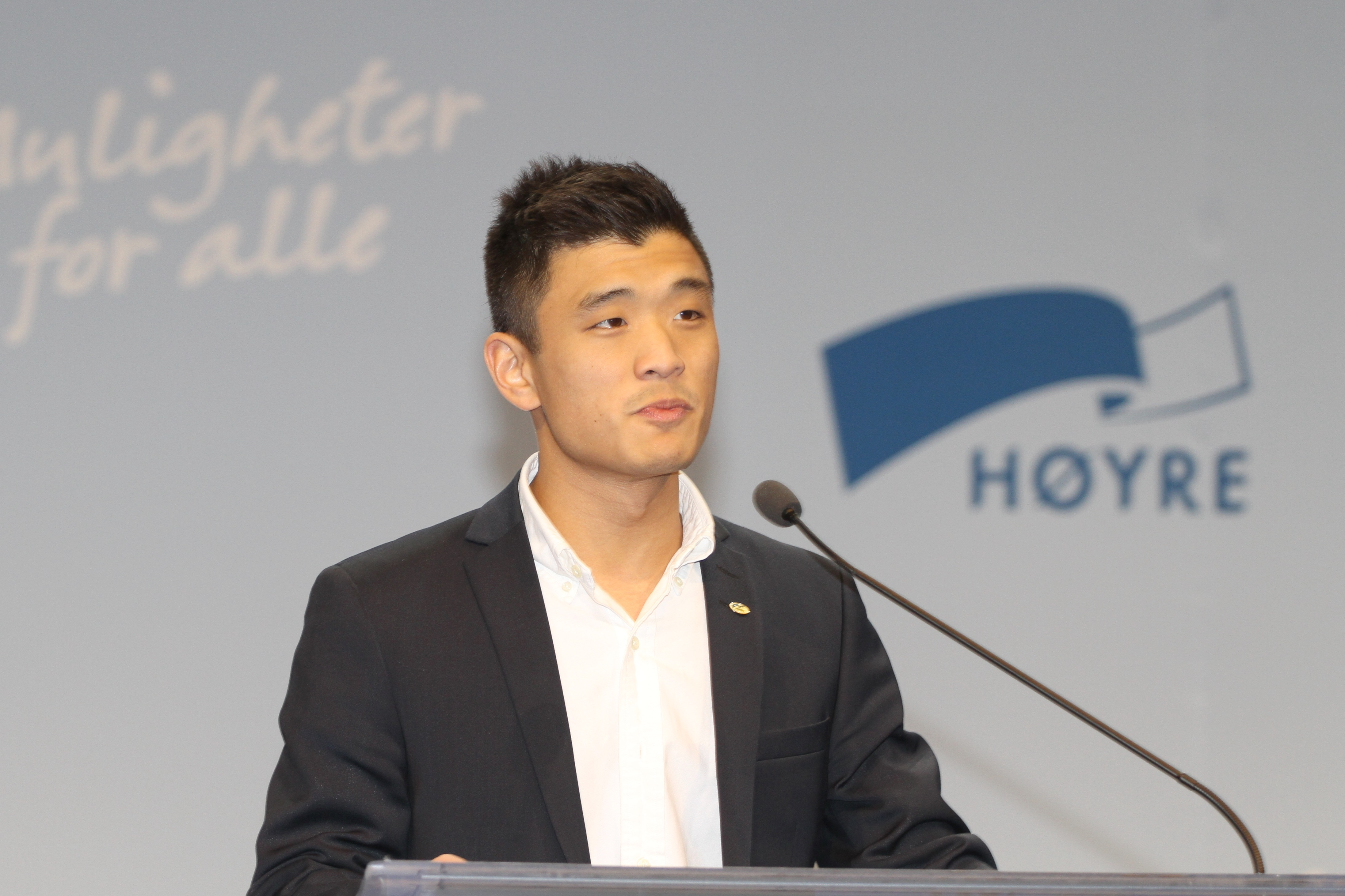 Kristoffer Gustavsen